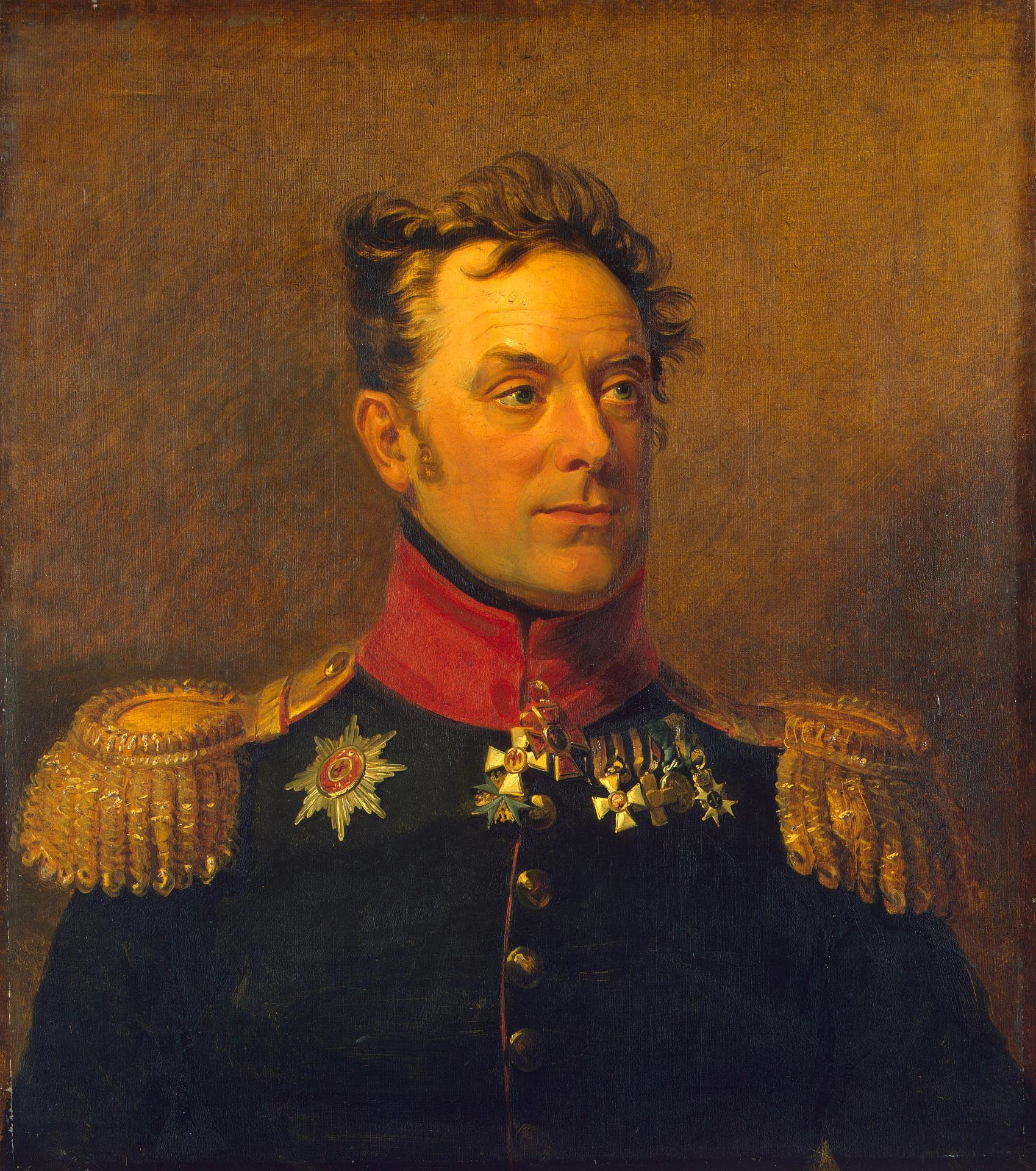 Ermolay Fyodorovich Kern (1773 – 08.01.1841) russian general